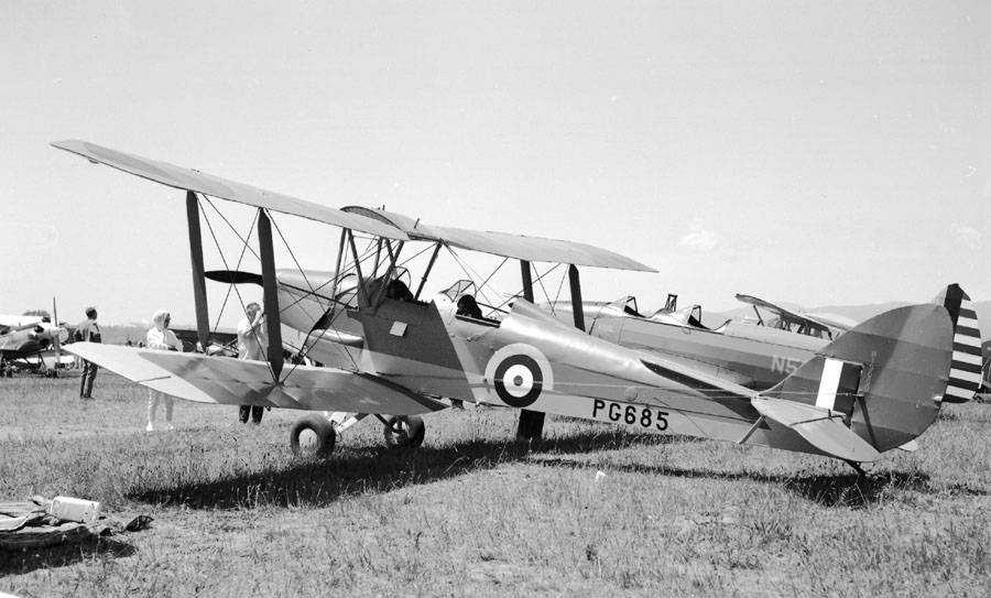 DeHavilland DH-82A (N1300D) Tiger Moth at Watsonville, California on May 25, 1968.